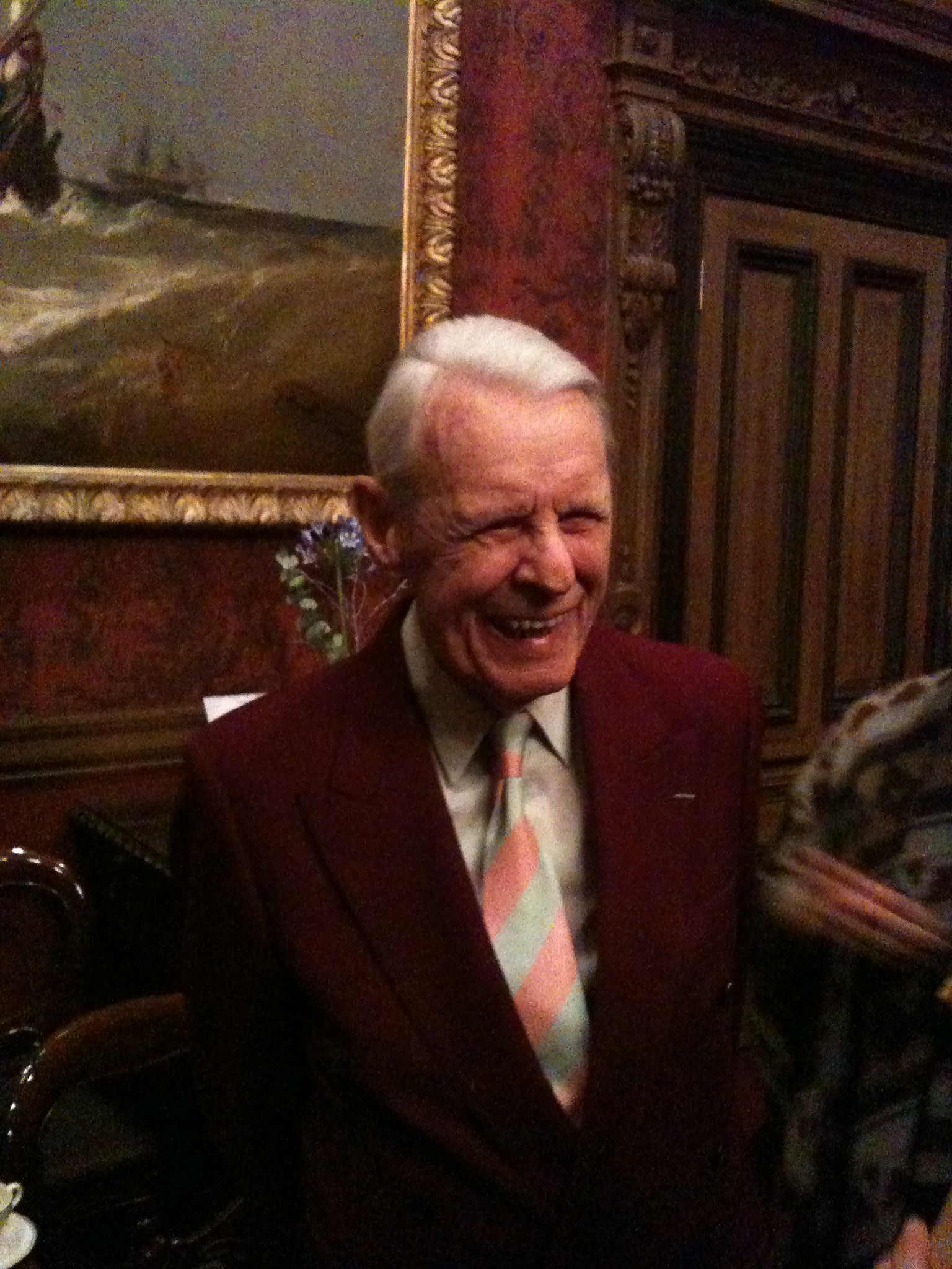 Ivor Guest, ballet historian, on the occasion of his 90th birthday party at the Garrick Club, London